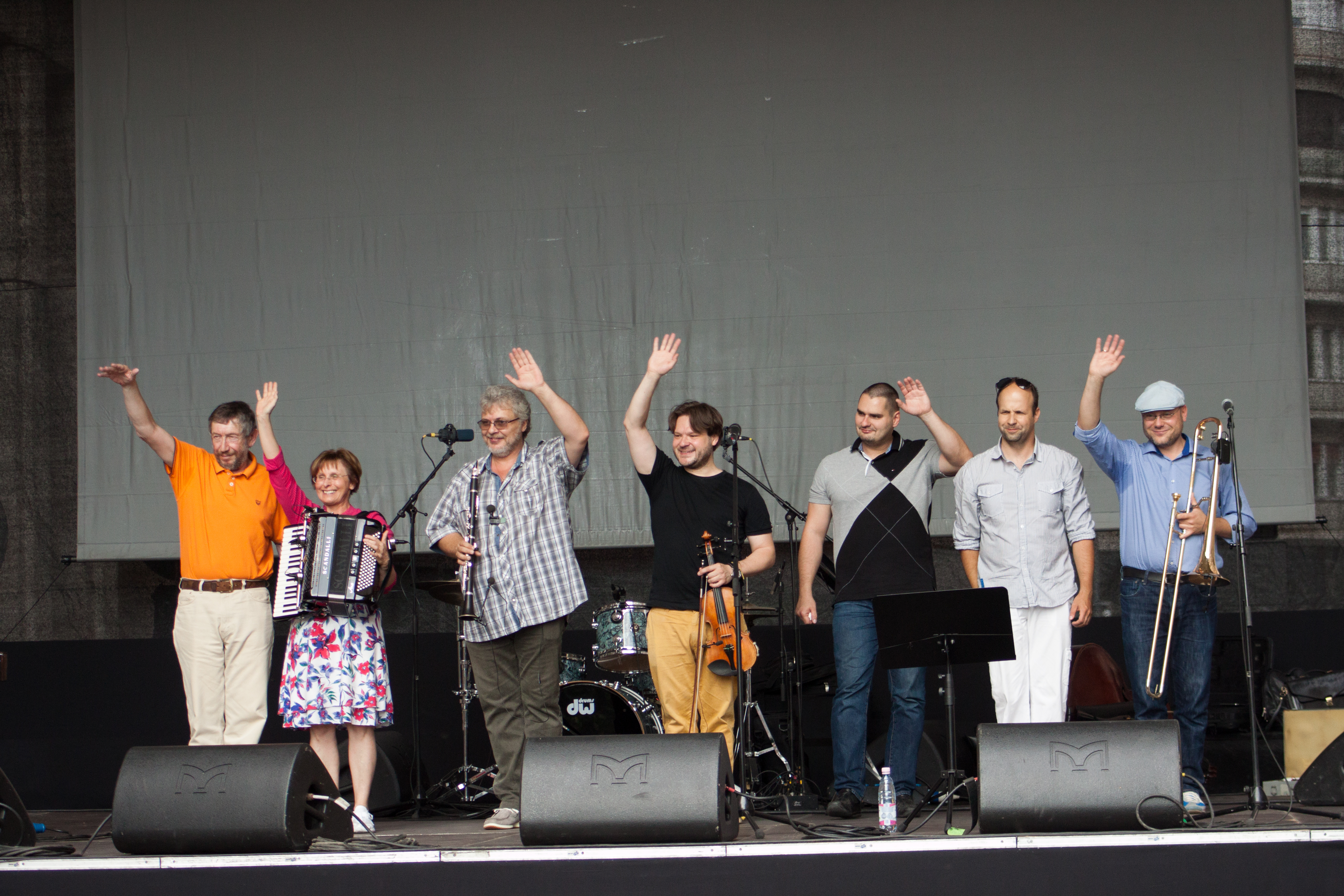 Budapest Klezmer Band at the open-air production in front of the Örkény Theatre